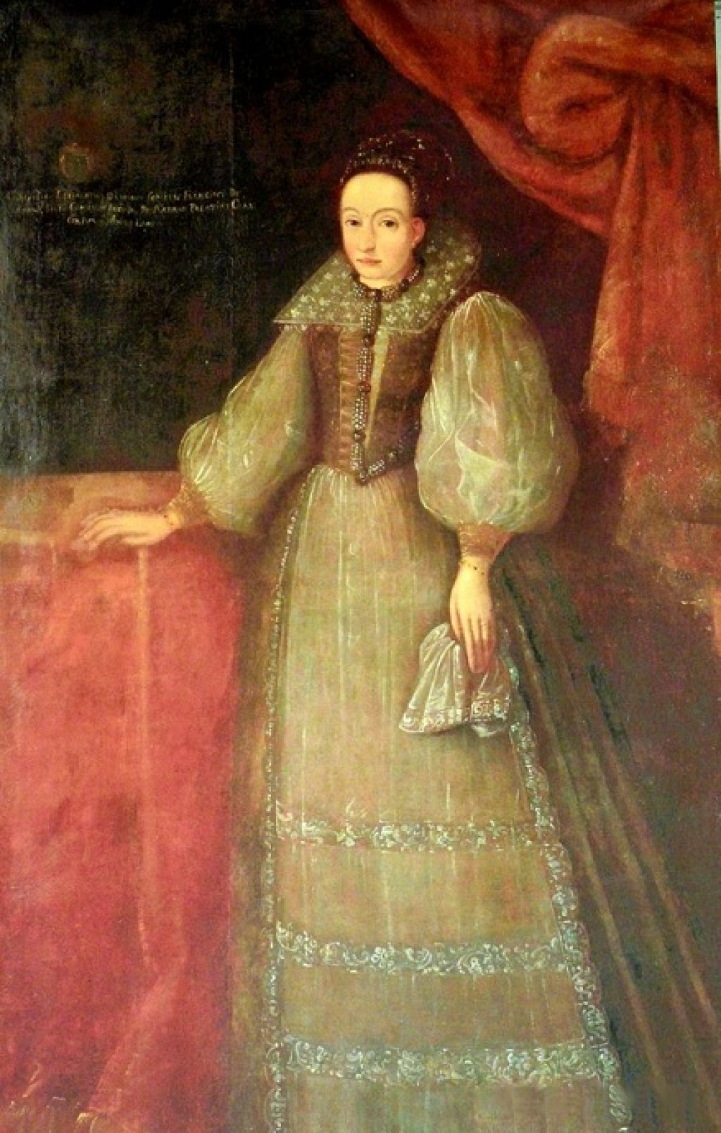 Portrait of Elizabeth Báthory (1560-1614)